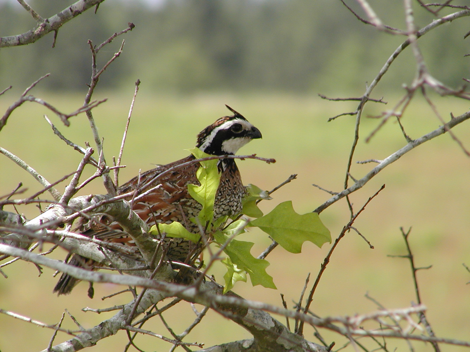 The bobwhite quail, Georgia’s official State Gamebird, lives in the longleaf ecosystem